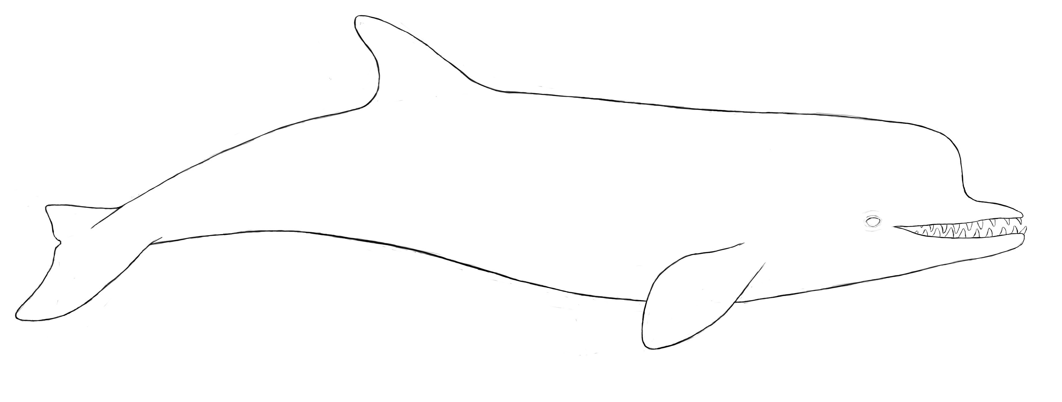 Restoration of Albicetus oxymycterus, an early raptorial sperm whale from California.